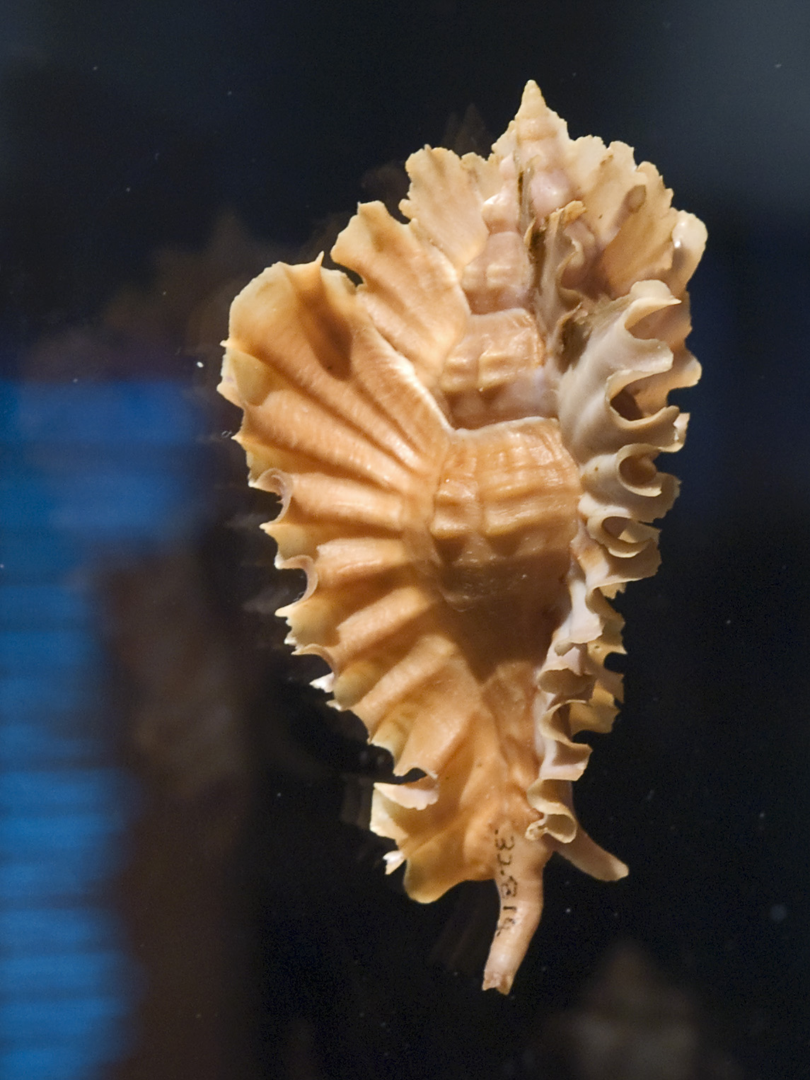 32814 Naquetia barclayi (synonym : Naquetia annandalei) (Annandale’s Murex) Philippines HMNS 20712 Wikipedia Loves Art at the Houston Museum of Natural Science This photo of item # 32814 at the Houston Museum of Natural Science was contributed under the team name "Assignment_Houston_One" as part of the Wikipedia Loves Art project in February 2009. Houston Museum of Natural Science The original photograph on Flickr was taken by skarsol—please add a comment to the original Flickr page whenever a use has been made on Wikipedia or another project. Project galleries on Flickr: this institution, this team